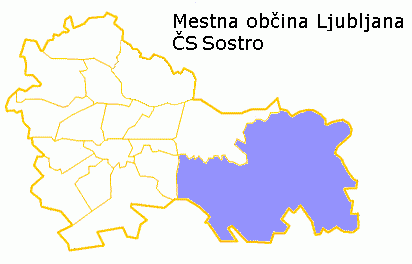 author: Navportus 18:41, 26 June 2007 (UTC) description: Map of Sostro, part of Ljubljana